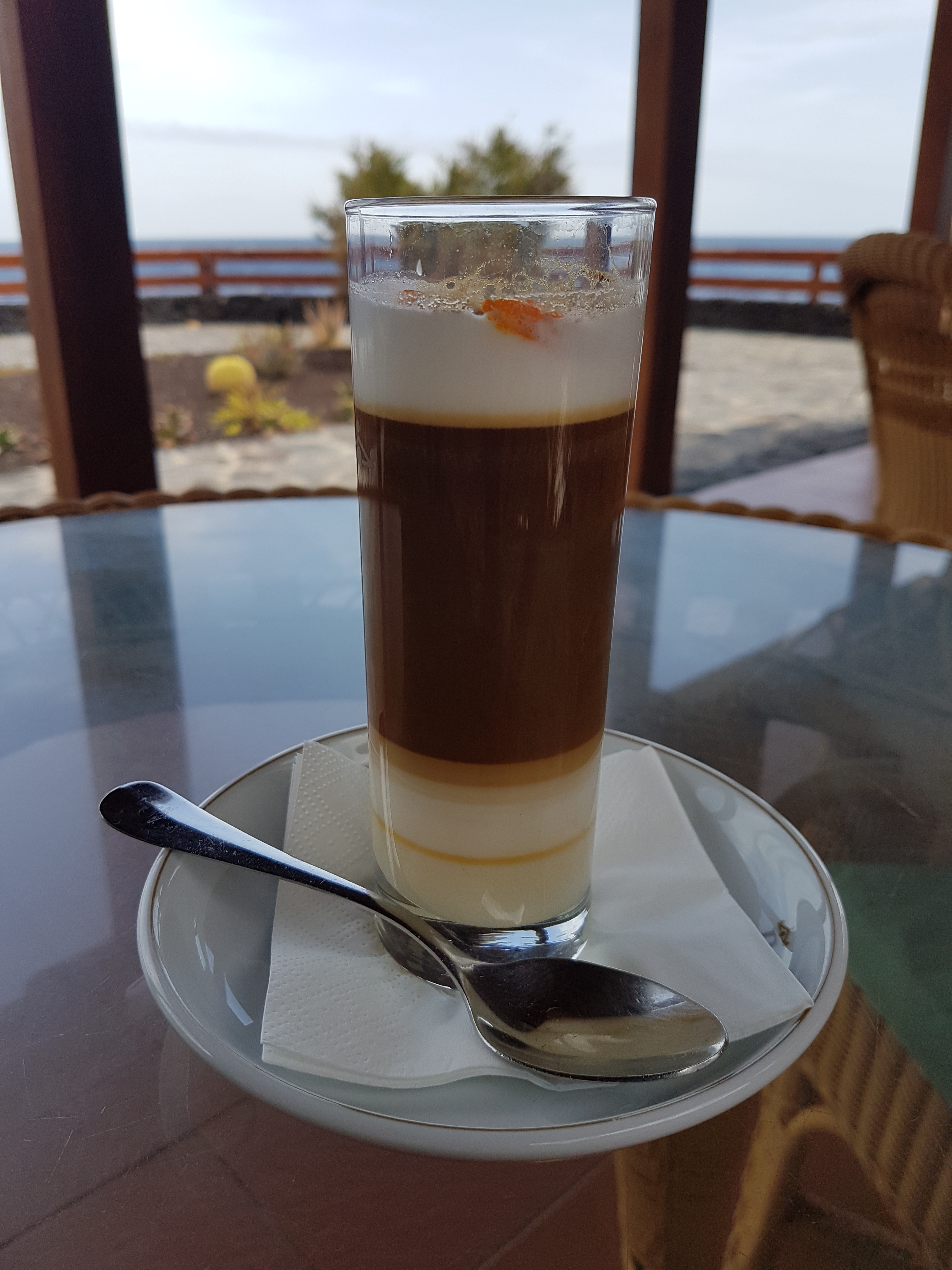 A Barraquito drink (coffee) photographed on the island of El Hierro.